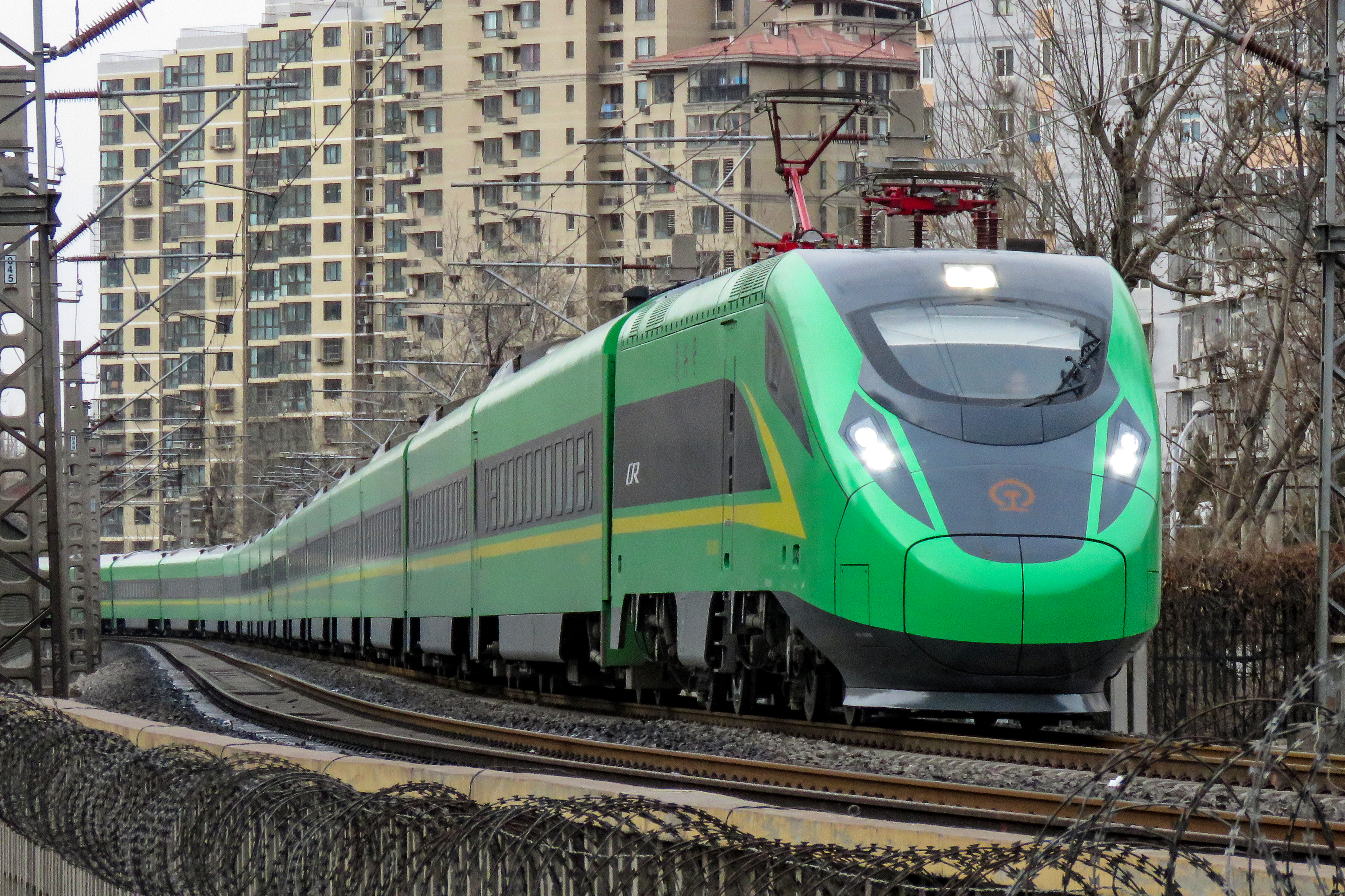 D712 from Hangzhou. The full "aesthetically unpleasing" train seems to be numbered 6003.